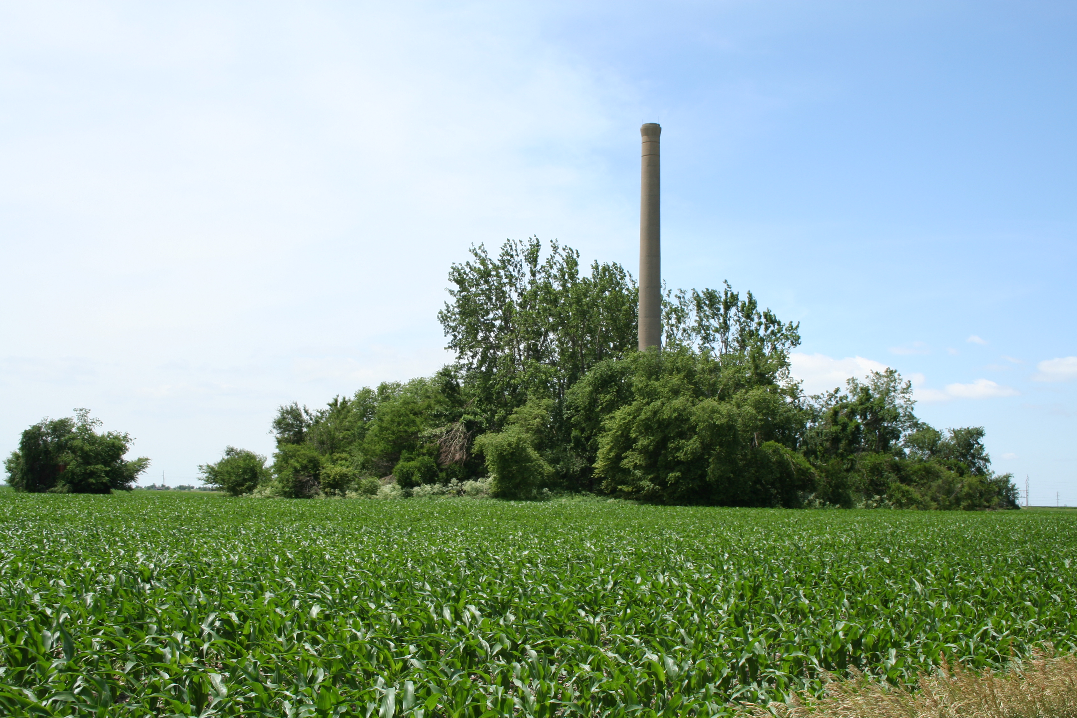 Ruins of Sangamon Ordnance Plant west of Illiopolis, Illinois